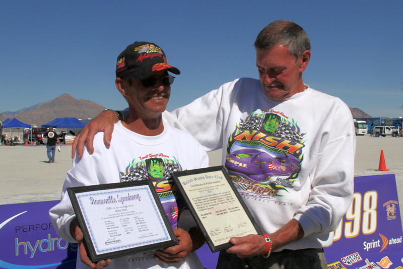 Mike Nish (l) receiving record certificate at the Mike Cook Shootout LSR event, Sep 23, 1010. Father Terry Nish is on right